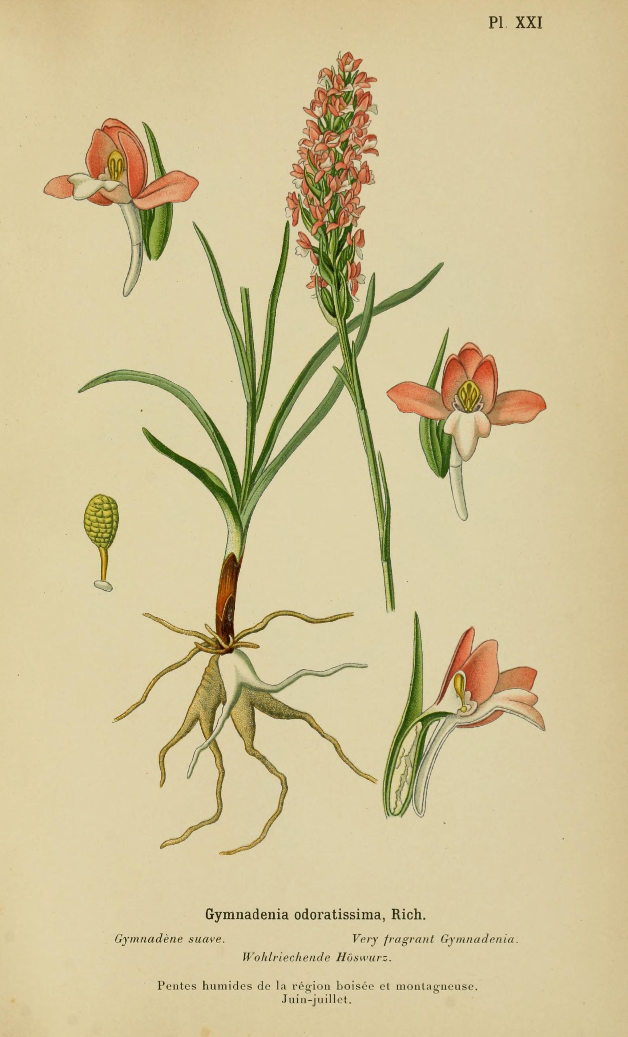 Title: Album des orchidées de l'Europe centrale et septentrionale Year: 1899 (1890s) Authors: Correvon, Henry, 1854-1939 Subjects: Publisher: Genève, Librairie Georg Text Appearing Before Image: PI XXI c Text Appearing After Image: Gymnadenia odoratissima, Rich. Gymnadène suave. Vcry flagrant Gymnadenia. Wolilriecliende Hùswurz. Pentes humides de la région boisée el moutagueuse. Juin-juillet.